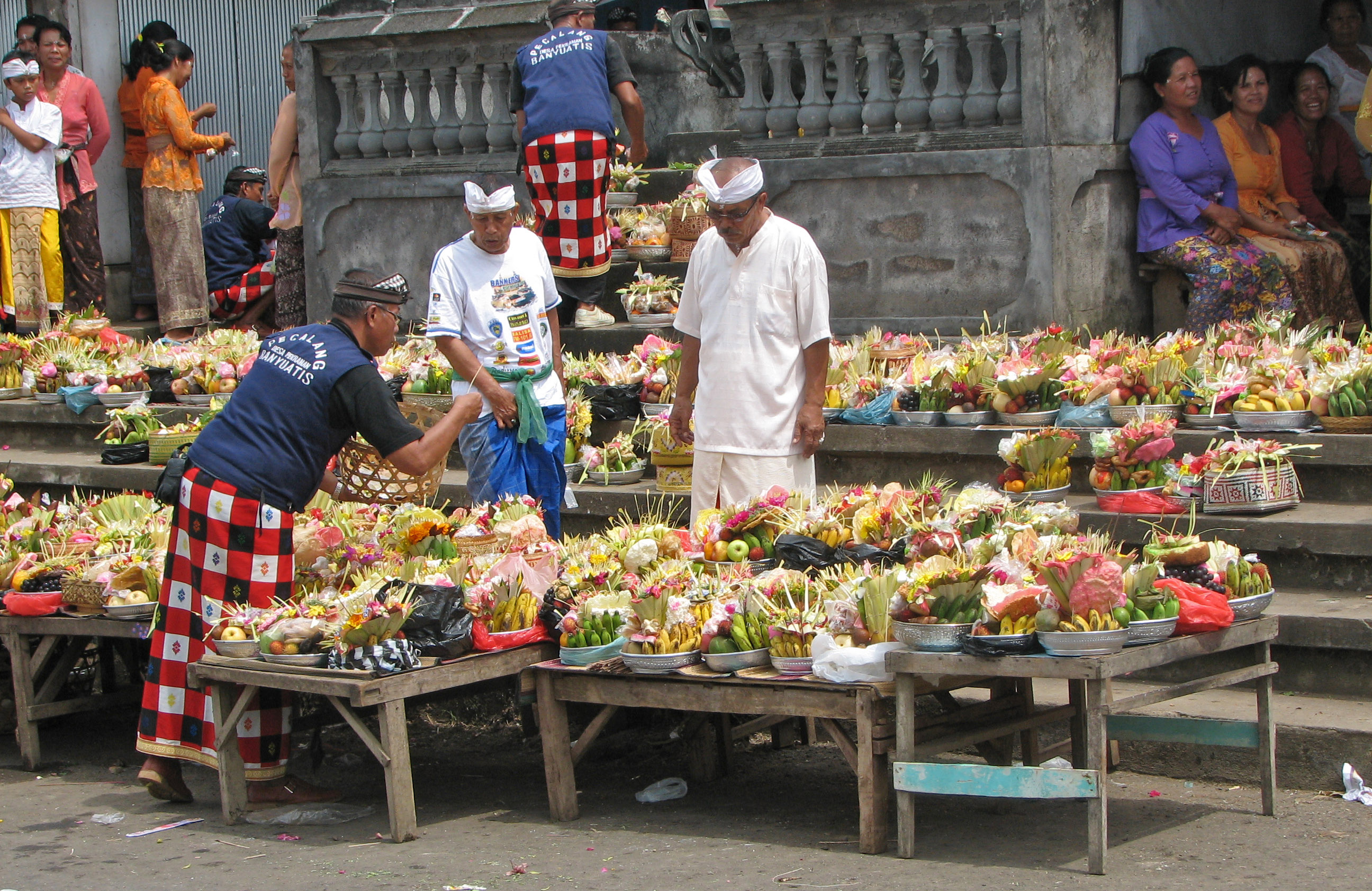 Offerings at a hinduist ceremony (Island of Bali, Indonesia)